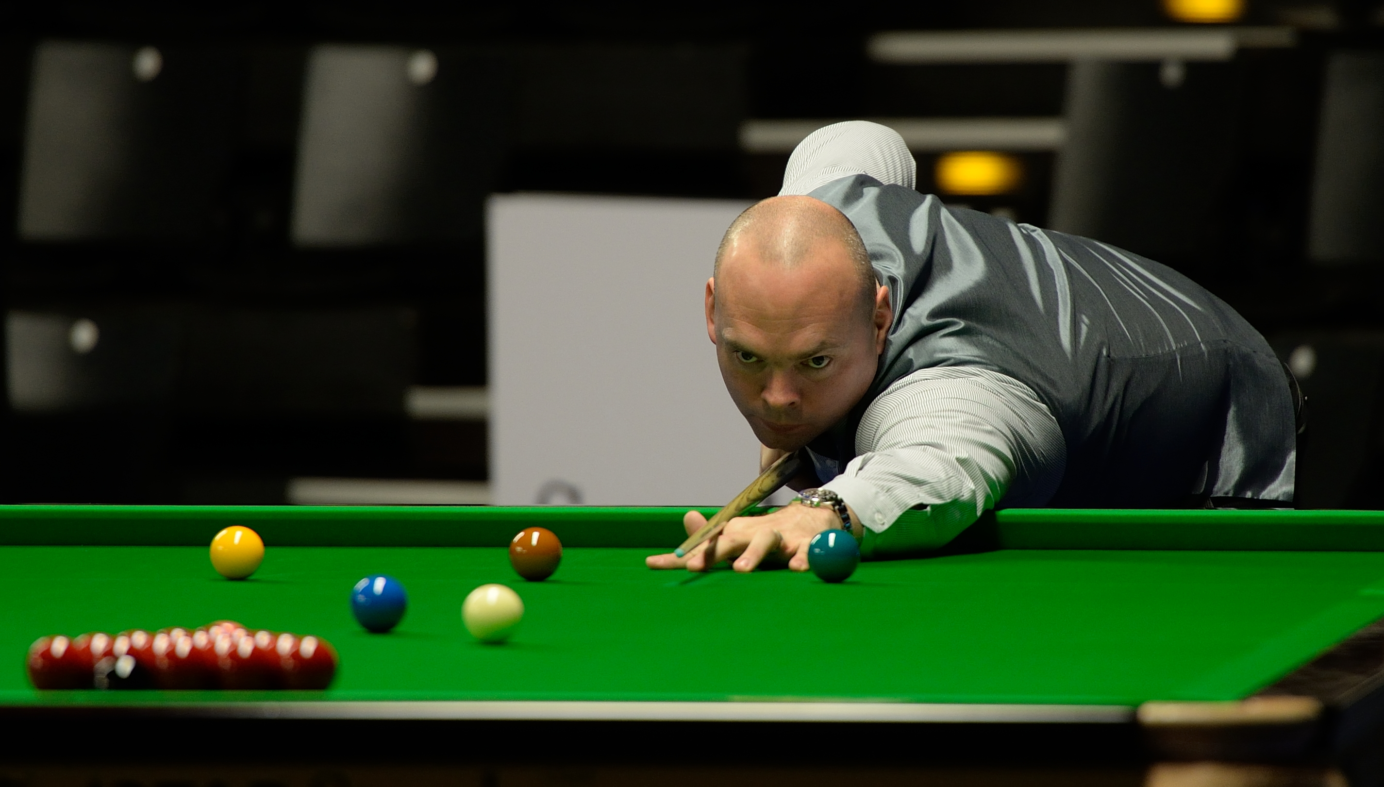 Picture taken in Berlin during the Snooker German Masters in 2015. Stuart Bingham.